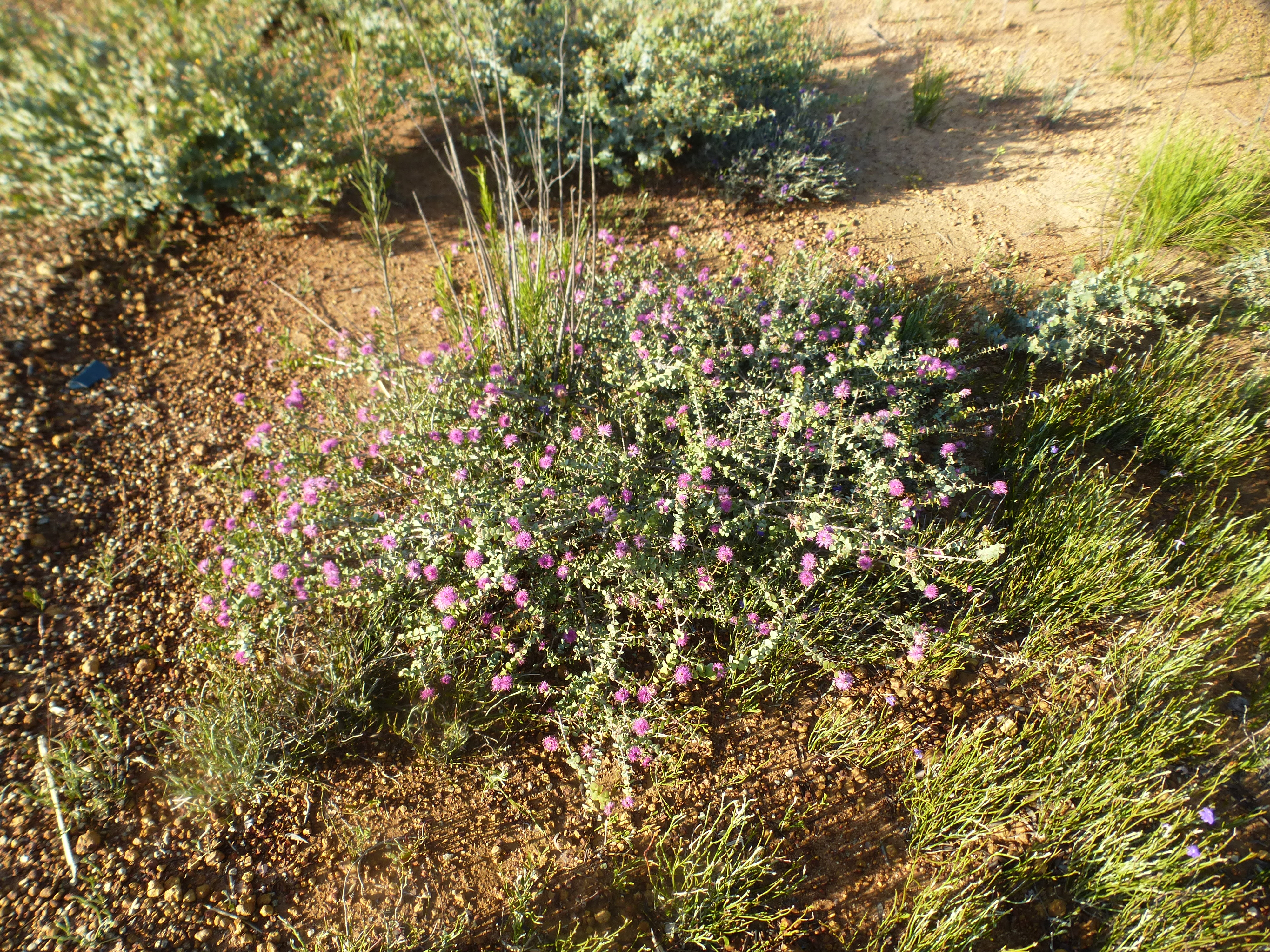 Melaleuca cordata growing near Perenjori